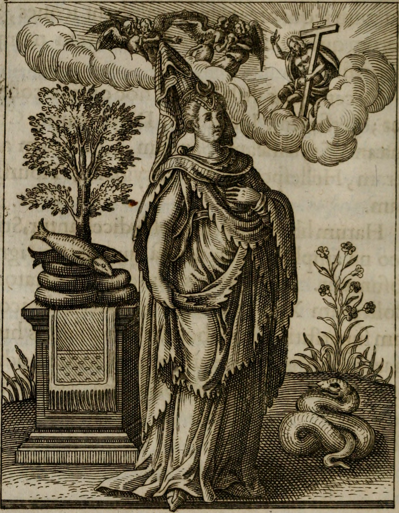 Title: Historia deorum fatidicorum, vatum, sibyllarum, phoebadum, apud priscos illustrium : cum eorum iconibus : præposita est dissertatio de divinatione et oraculis Year: 1675 (1670s) Authors: Mussard, Pierre, 1627-1686 Subjects: Emblem books, Latin Oracles Divination Publisher: Genevae : Sumptibus Petri Chouët Text Appearing Before Image: plures fuif^feeiufmodi/Acti/97quarum fequentcs pagin^ exhibent icones ,-&eorum qu^ de iis prodita funt brevem narra-tionem. Decemquas vultVarro, hocordine collo-cat j Perficam , Libycam , Delphicam , Cu-m^am, Erythra^am, Samiam, Cumanam al-teram,Helleiponticam, ihrygiam, Tiburti-nam. Harumlibros quifuperefle dicebanturjSti-lico ne amplius legercntur a quoquam , igniabfumpfit. Theodofius autem Imperator,CoUegium XXvirum cum reliquis Ethnico-rumfiiperftitionibus aboIevit,anno (alutis hu-man^ 39o.Vnde &; iterum patet,illa quas hodiecircumferuntur carmina Sibyllina , genuinanon cffe. Bb 1^0 F-^rficcL J^cLmtrebke., -v-tl SclIjcu. Text Appearing After Image: PErficcLfeiL OkcLlcLceafiiL, ^atre natcL Bcrafo^ambethn Fytkij51/atiLLnatci maciu . ^% I5)f I , I. II !■ I ■ » .111 PERSICA SIBYLLA PRimamrecenfet Varro SibylLam Ter(tc4m\quam aiij Babyloniam, alij Chalv3a^am,alijHebr^am, alij Aegyptiam appellarunt. No-men eius proprium Sambetha \ vel vt Pau/aniashabct, J*4i^^.Natam dicunt patreBerofo,matrcErymanthe, inoppidoad mare rubrum, cuiNocnomen. Vndealiqui Nohx Patriarcha^fiiiam vel neptcm fuilTe contendunt, pracfer-timcum/. i. C^rm, Siby!ln,vna fe cumNohain•arca efFugiff: cciTTm omQoov, dt/crtminamortis., dcItb. 3 de eodemNoha verba ficicns, afhrmetfe eius fms^uine ortam. Huius omniunl anti-quiflimiE Sibyll^, hiftoriamdefcripfiffe Nica-norem ilium qui Aiexandri Magni res geftasmemoria? mandavit, LatStantius ex Varroneannotat. Libros eius viginti quatuor fiiifle,SuiJas teftis eft ; in quibus innumera cecinitde regnorum mutationibus, de Chrifto, deAntiChrifto , &:finguiatimde Alexandro M.,qua occafione etiam Nicanor eius hiftoriamreb